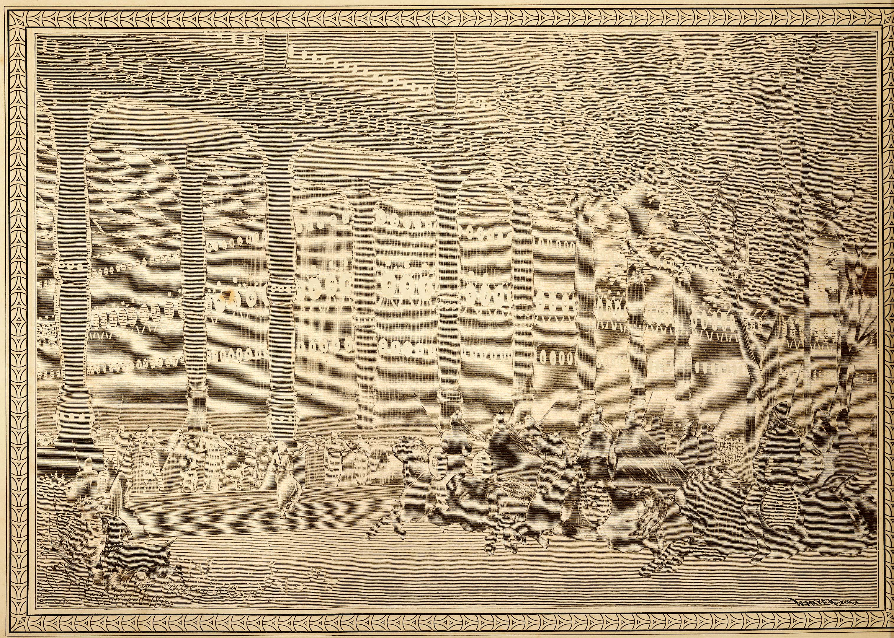 as depicted (without a caption) in a book about Rayner Lothbroc